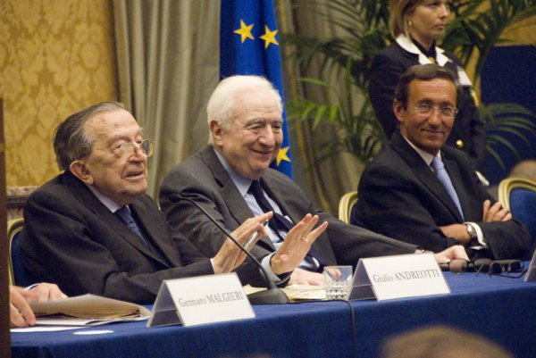 Roma, 28 maggio 2008. Il Presidente della Camera dei Deputati, On. Gianfranco Fini alla presentazione del libro su Giorgio Almirante. Nella foto l'intervento di Giulio Andreotti. Foto di Enrico Para.